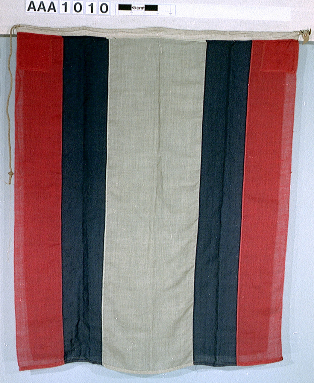 House flag, Falls Line The house flag of Wright & Breakenridge, Glasgow (Falls Line). The flag is made of wool bunting, machine sewn with a linen hoist. A rope is attached. A rectangular white flag, the top and bottom are bordered with an outer red, and a narrower inner blue stripe.